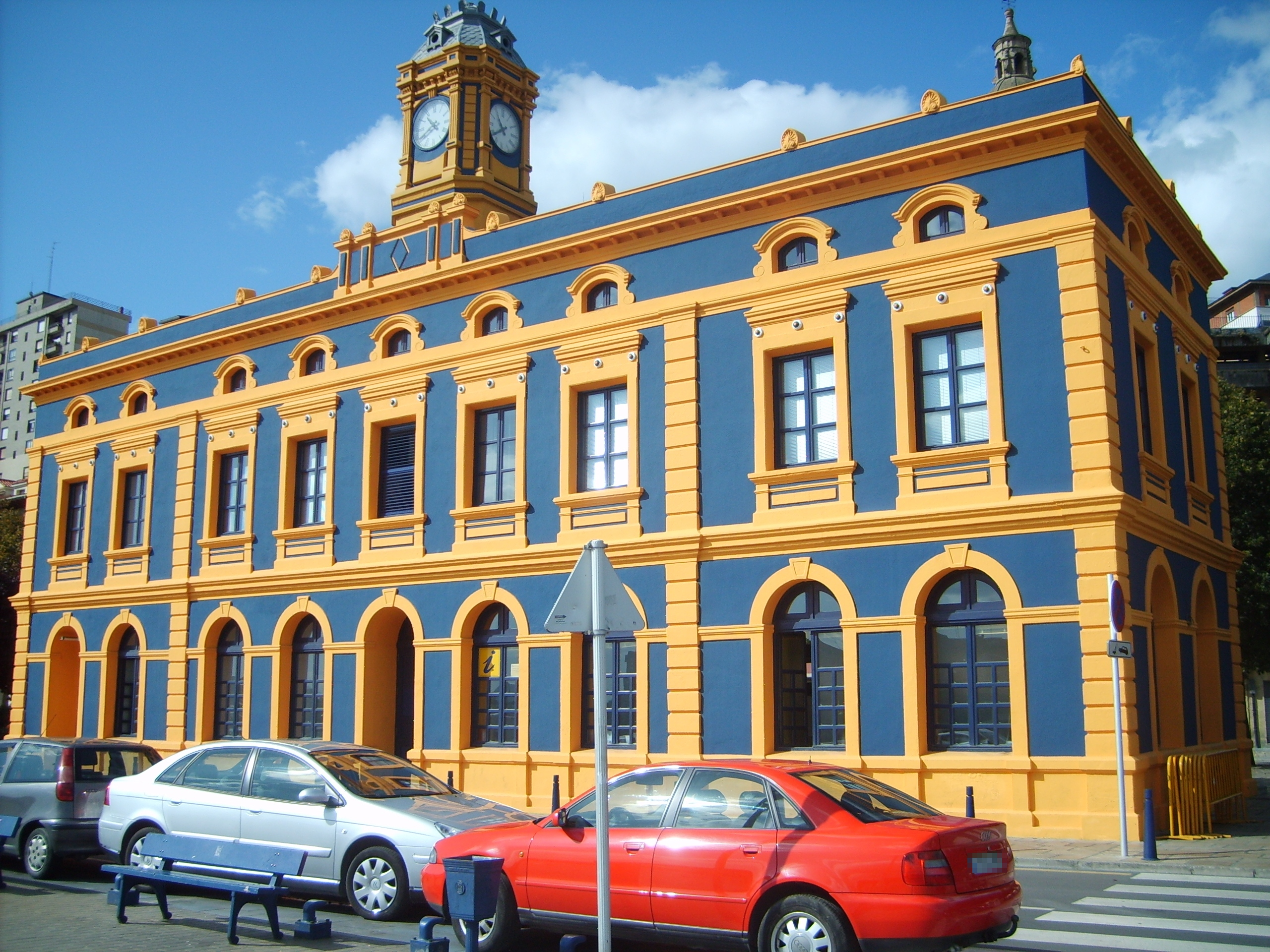 Old railroad station in Portugalete (1888), converted in an administrative building in june 2009. It is located in La Canilla.